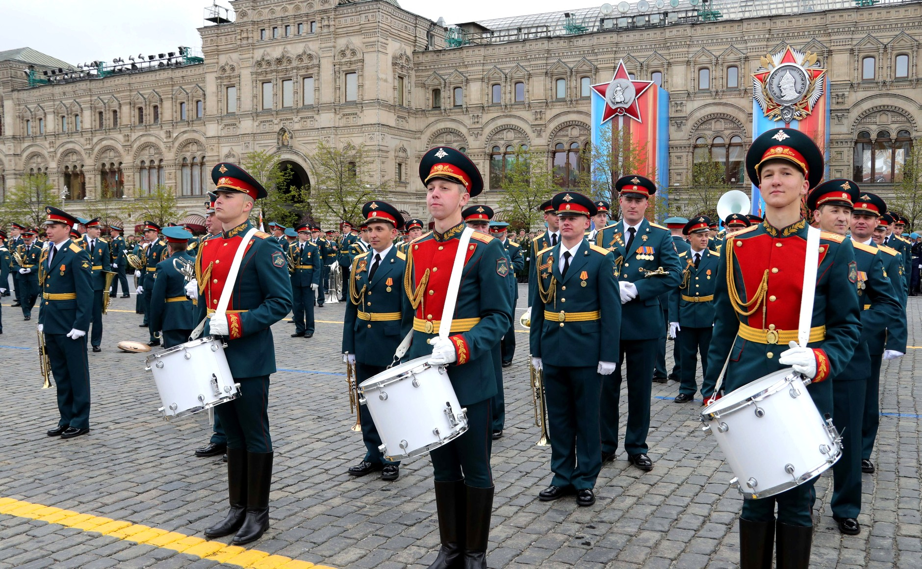 Military parade on Red Square 2017-05-09